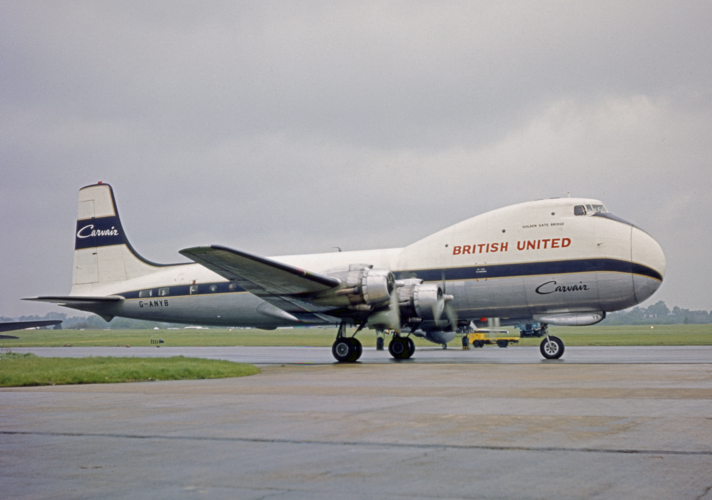 ATL 98 Carvair G-ANYB, British United Air Ferries, Southend, UK